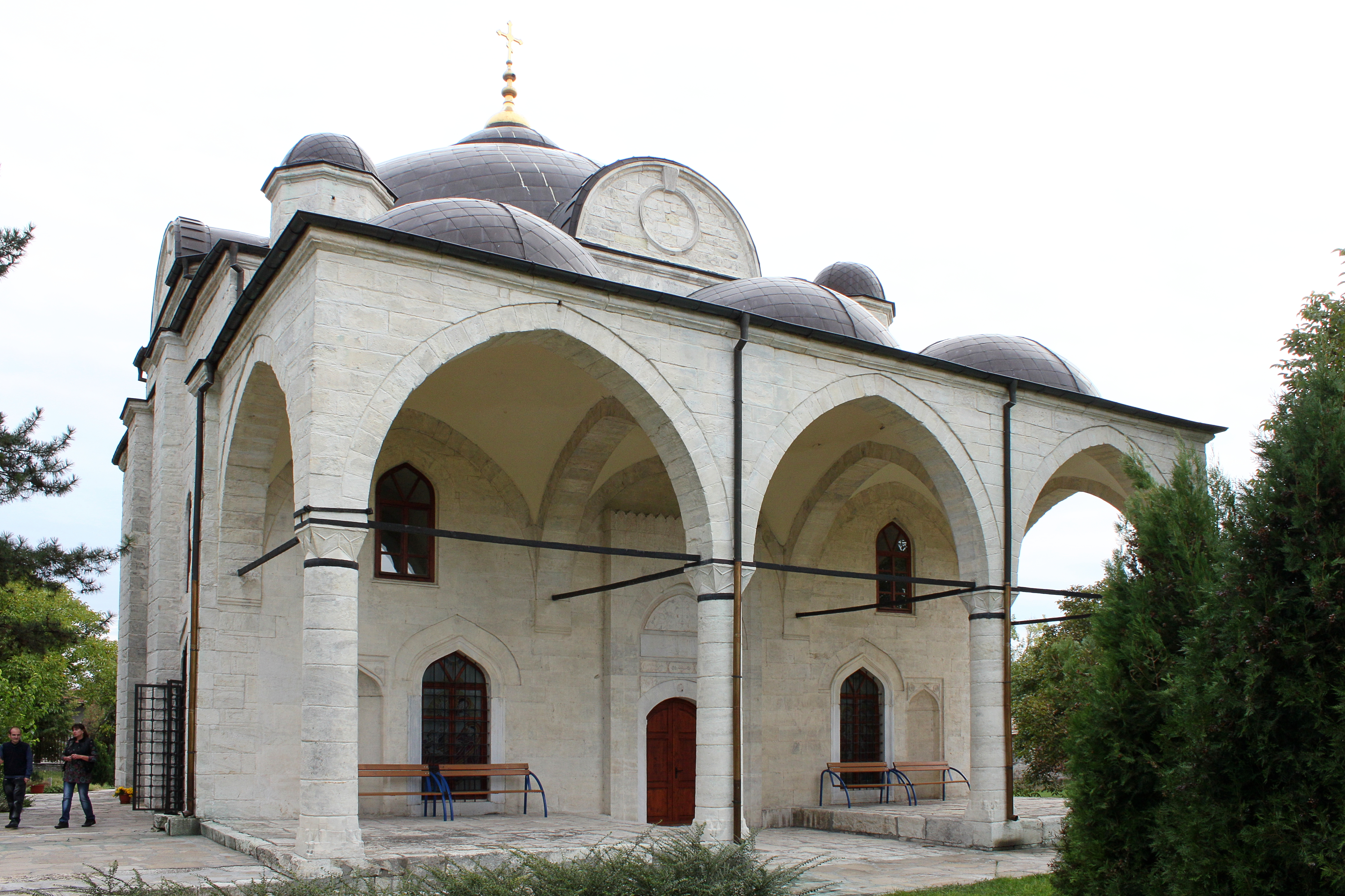 Church of the Assumption, Uzundzhovo, Haskovo District, Bulgaria